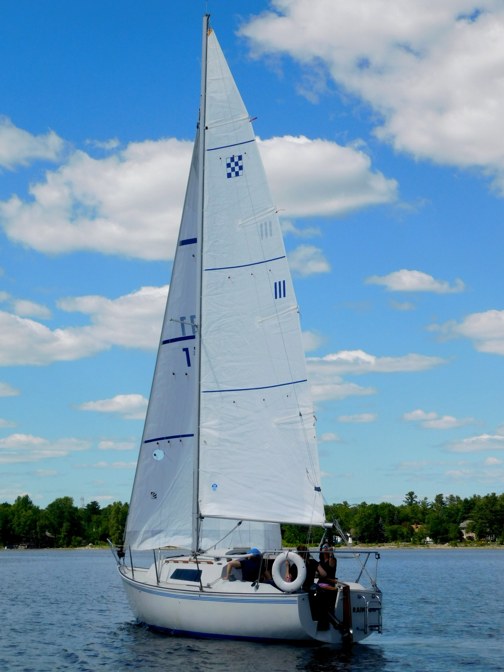 A Niagara 26 sailboat named Rainbow.